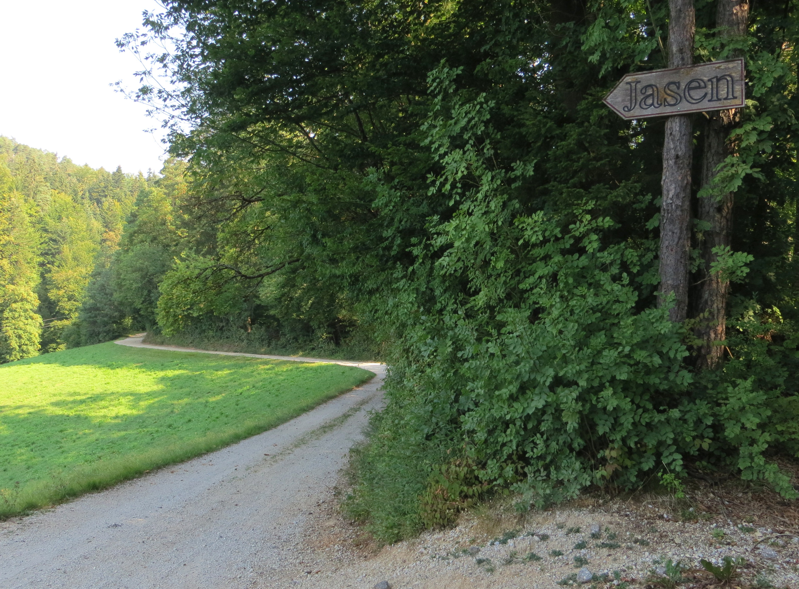 Road sign for Jasen, Municipality of Domžale, Slovenia north of Vrhovlje